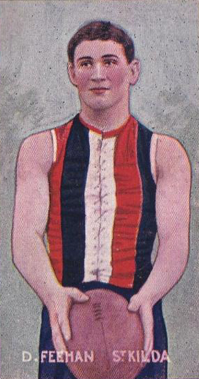 Cigarette card of Dan Feehan from the Sniders & Abrahams 1906 series